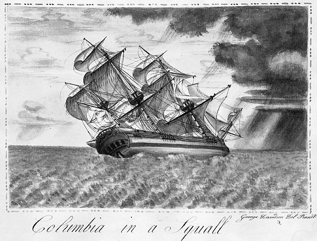 A painting showing the Columbia Rediviva, under Captain Robert Gray, heeling as it approaches a squall. It was painted by George Davidson, the ship's artist, in 1793.